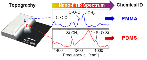 Concept of nanoscale chemical identification of materials with nano-FTIR